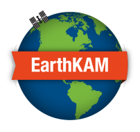 Sally Ride EarthKAM (Earth Kknowledge Acquired by Middle school students) logo